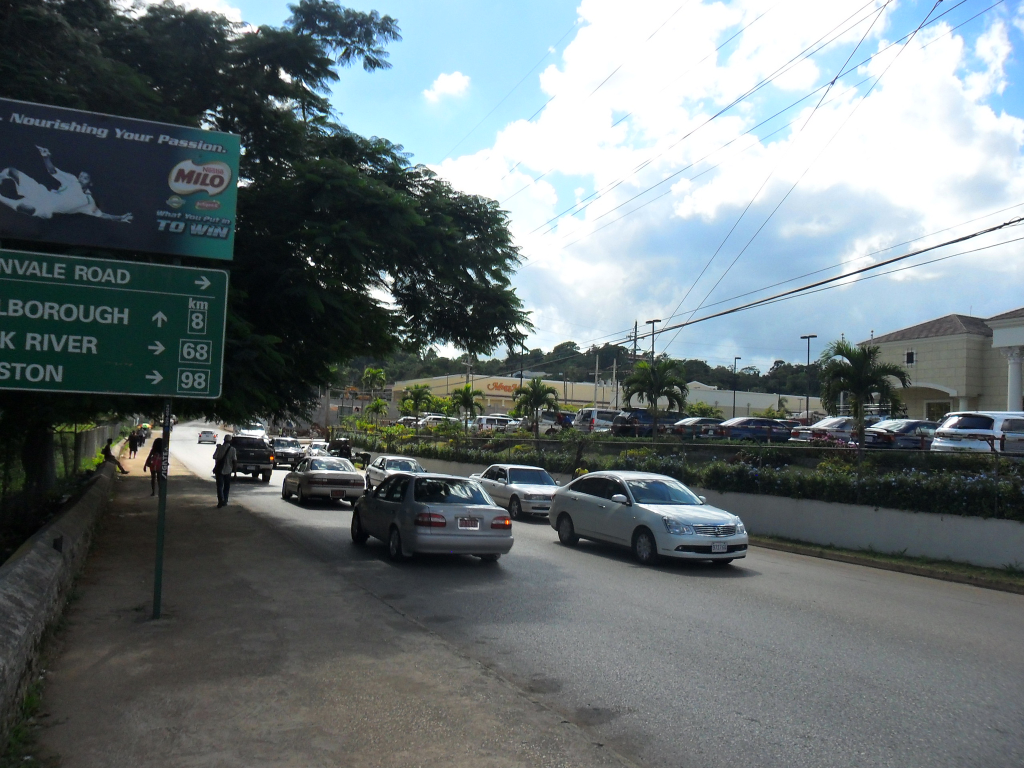 Perth road in Mandeville, Manchester